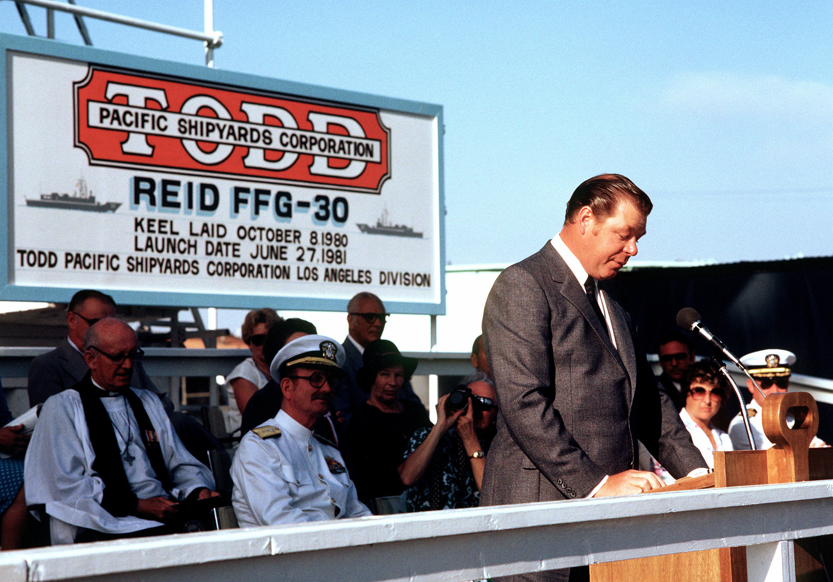 Master of Ceremonies and Vice President of Todd Pacific Shipyards Corporation, Hans K. Schaefer, speaks during christening and launching ceremonies for the guided missile frigate USS REID (FFG-30) at the Todd Pacific Shipyards Corp., Los Angeles Div.Location: SAN PEDRO, CALIFORNIA (CA) UNITED STATES OF AMERICA (USA)